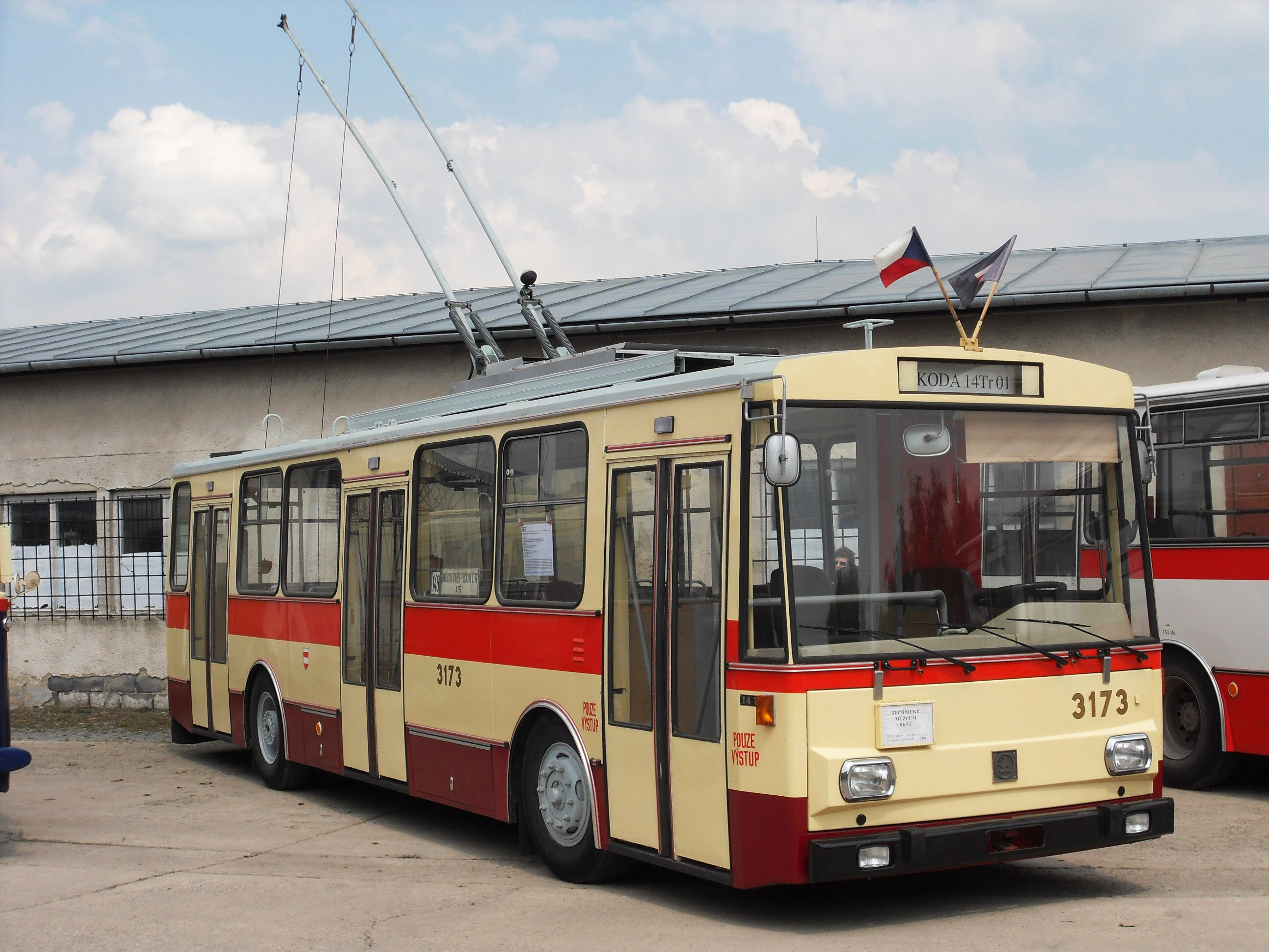 Historical trolleybus Škoda 14Tr (ex Dopravní podnik města Brna), depository of Technical Museum in Brno, Czech Republic